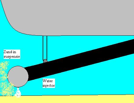 Diagram of a water injection dredger.